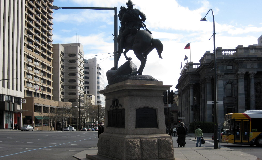 A view of the South African War Memorial in Adelaide, South Australia, looking West along North Terrace. Parliament House can be seen on the right. Intended to show a contrast with Image:Boer War Memorial, 1926.jpg